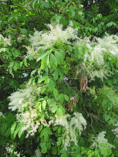 Fraxinus ornus, Langmead's Field, East Preston.